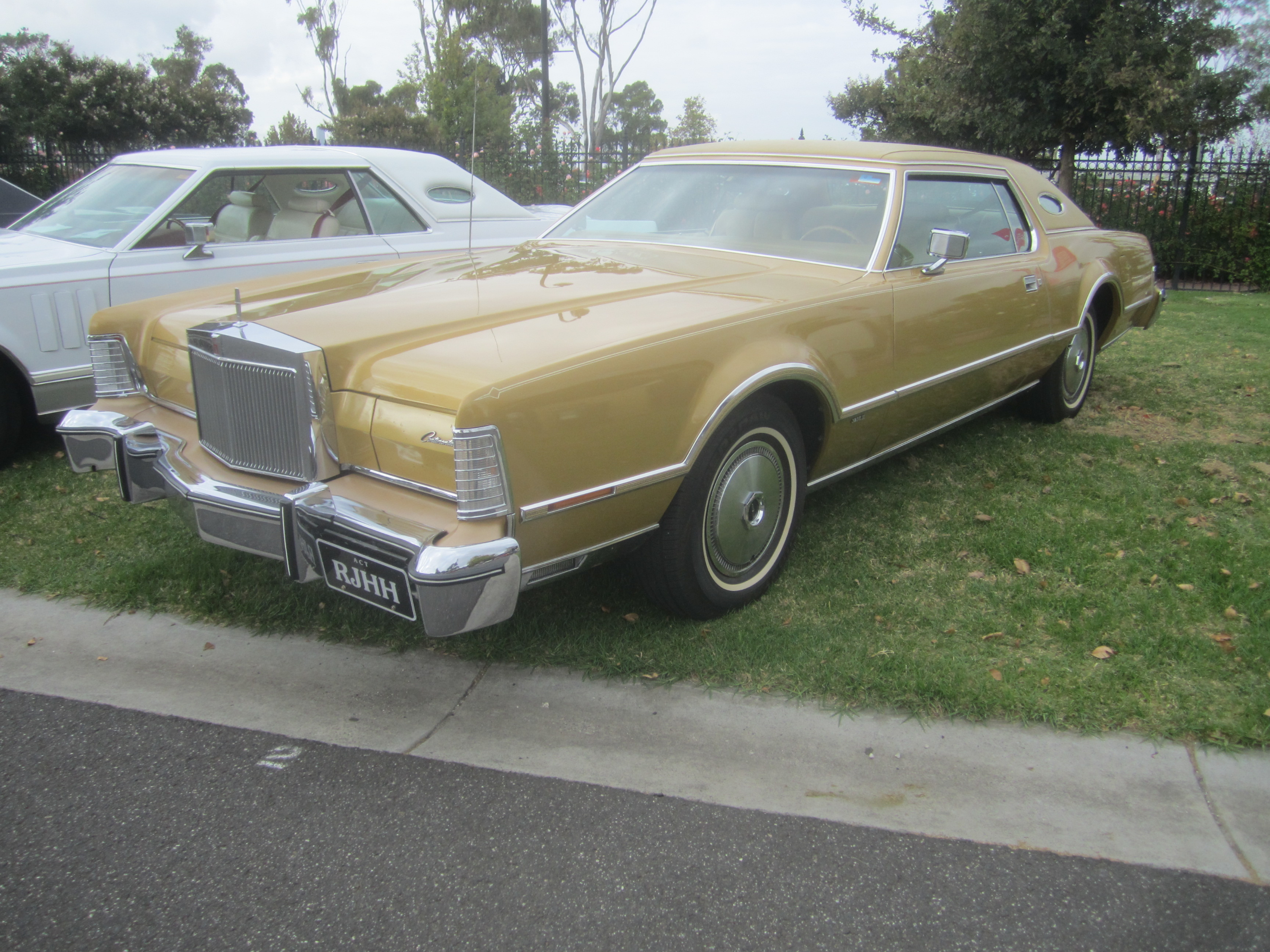 The Continental was a personal luxury car and the Mk IV, (built from 1972-76), like the Mk III, got the Rolls Royce style grille, covered headlamps and spare tyre hump. The Mk IV got more rounded lines and the line above the headlamps continued right to the grille. In the 2nd year, 1973 the front bumper changed, due to laws, from dipping under the grille, to straight across. Engine; 460 cu in V8